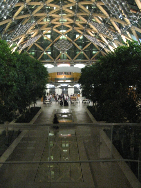 Portcullis House (building of the UK Parliament), main atrium